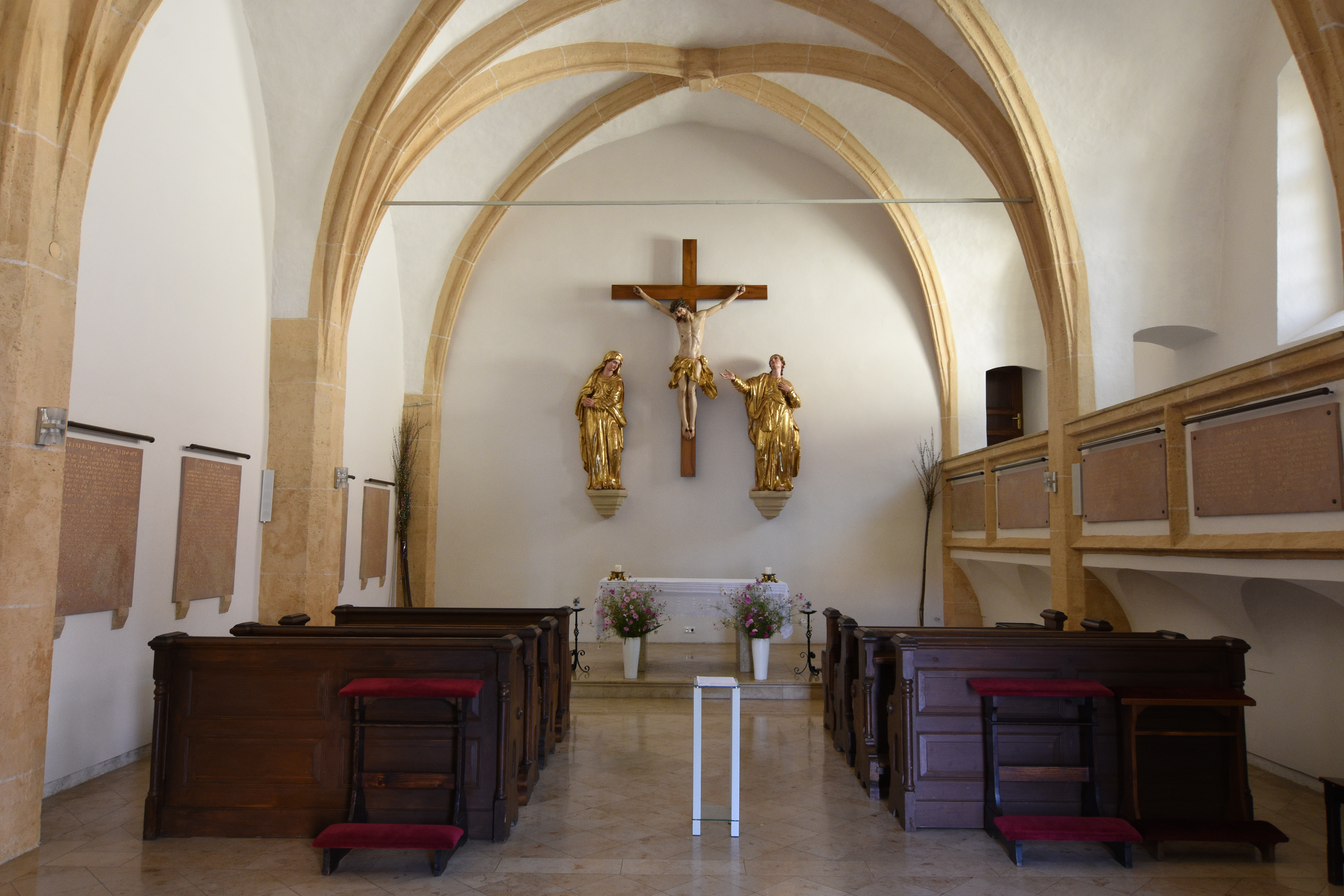 War memorial in Styria, parish church Leonhardskirche in Feldbach. Crucifixion group by Veit Königer.